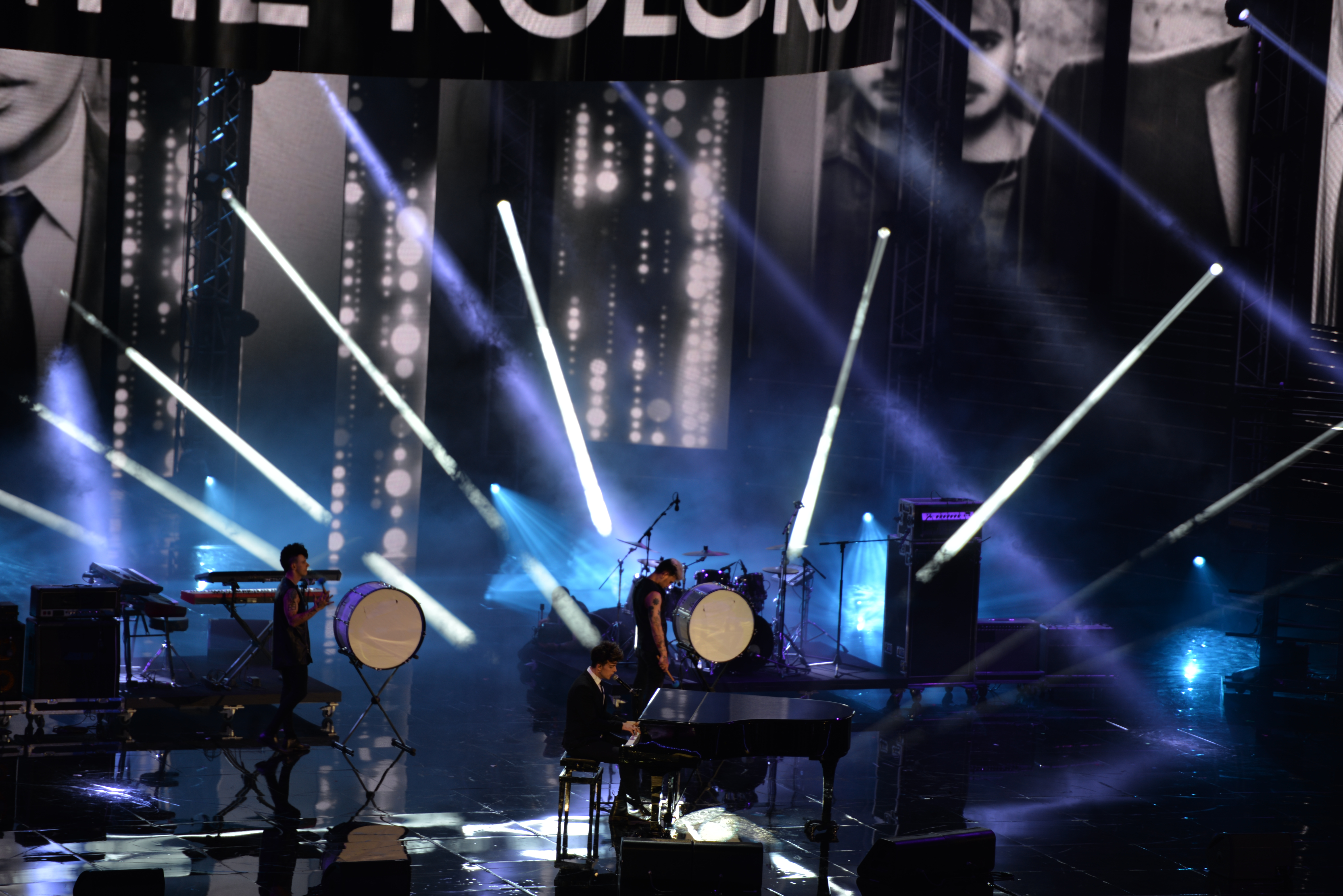 The Kolors at the Wind Music Awards 2016 ceremony at Verona Arena